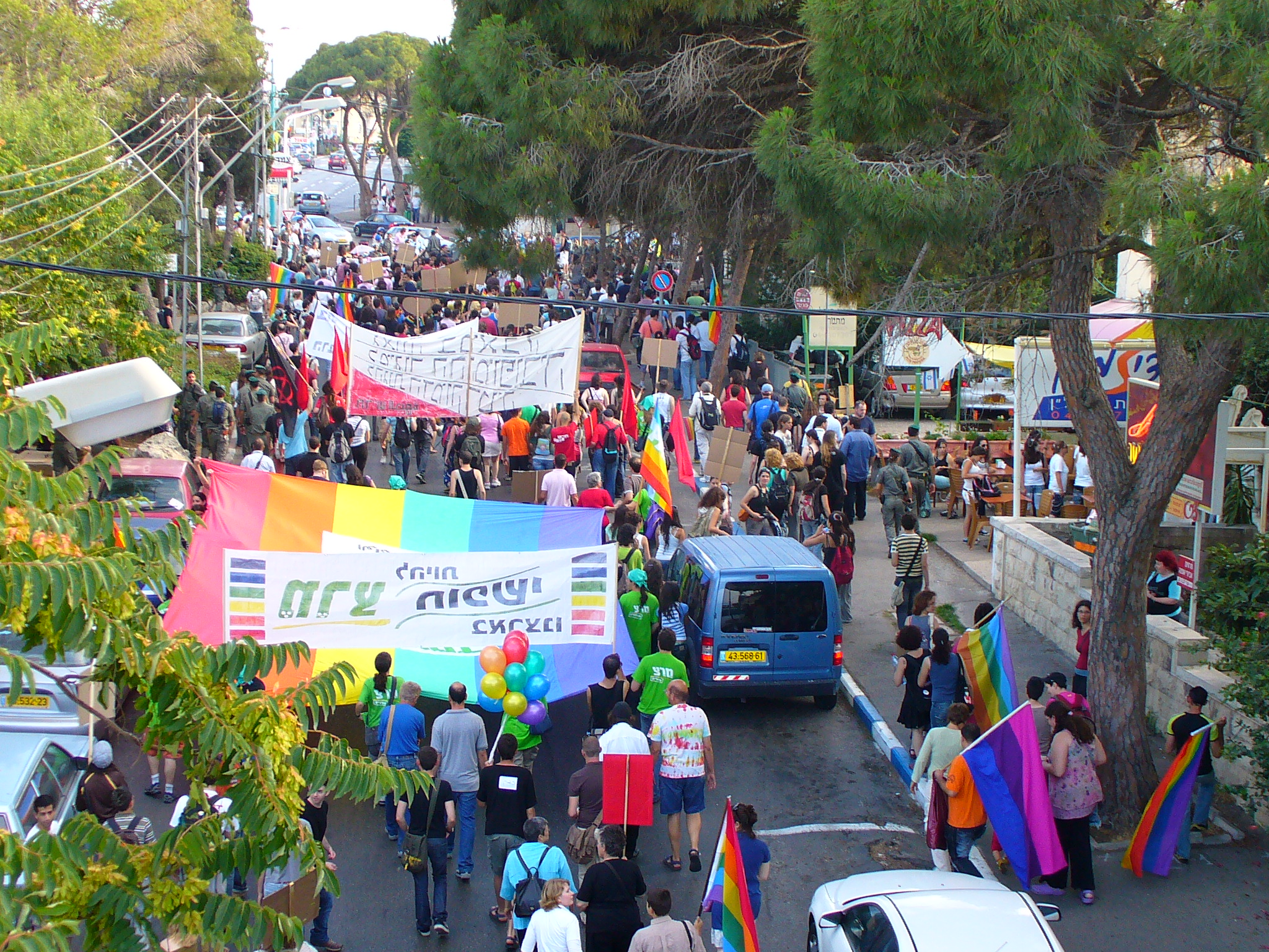 People marching in Haifa's Pride Parade, 2007